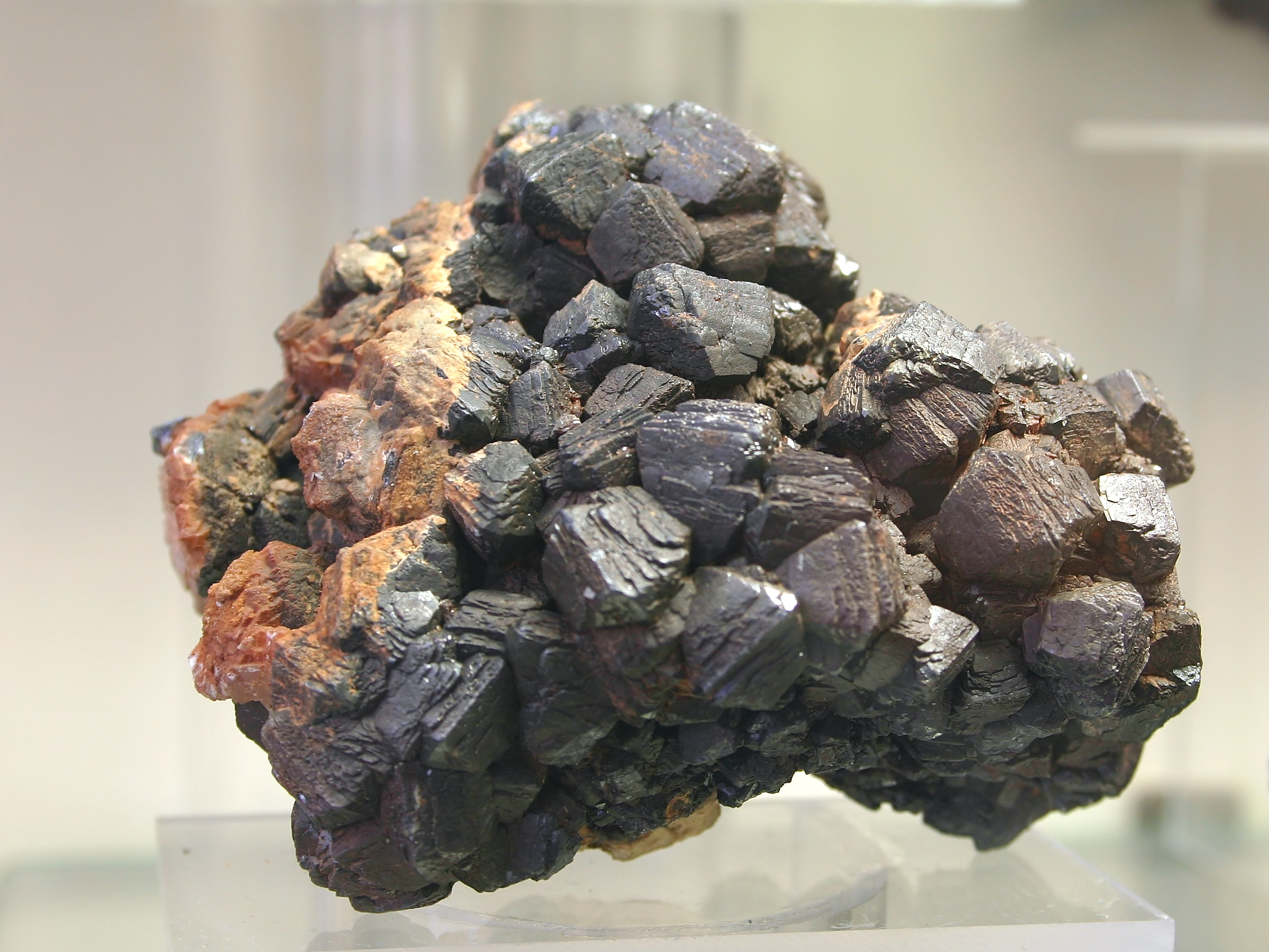 Mottramite. Locality: Abenab, Southwest Africa. Exposed in the Mineralogical Museum, Bonn, Germany